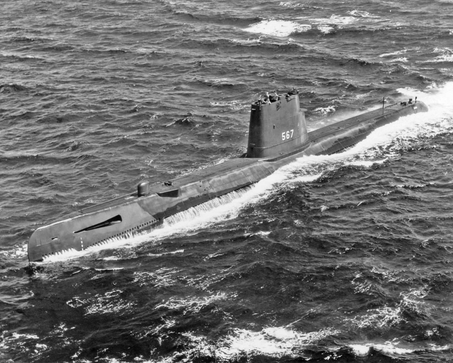 Forward port quarter photo of Gudgeon (SS-567). The location and actual date are unknown. The photo was entered into the Mare Island photo collection in Feb 66 shortly after Gudgeon started overhaul.